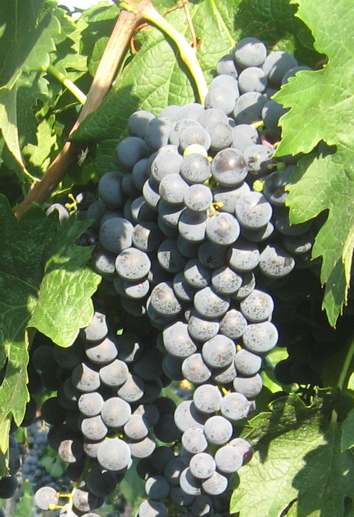 Merlot at Equinox Vineyard, Olanesti, Moldova